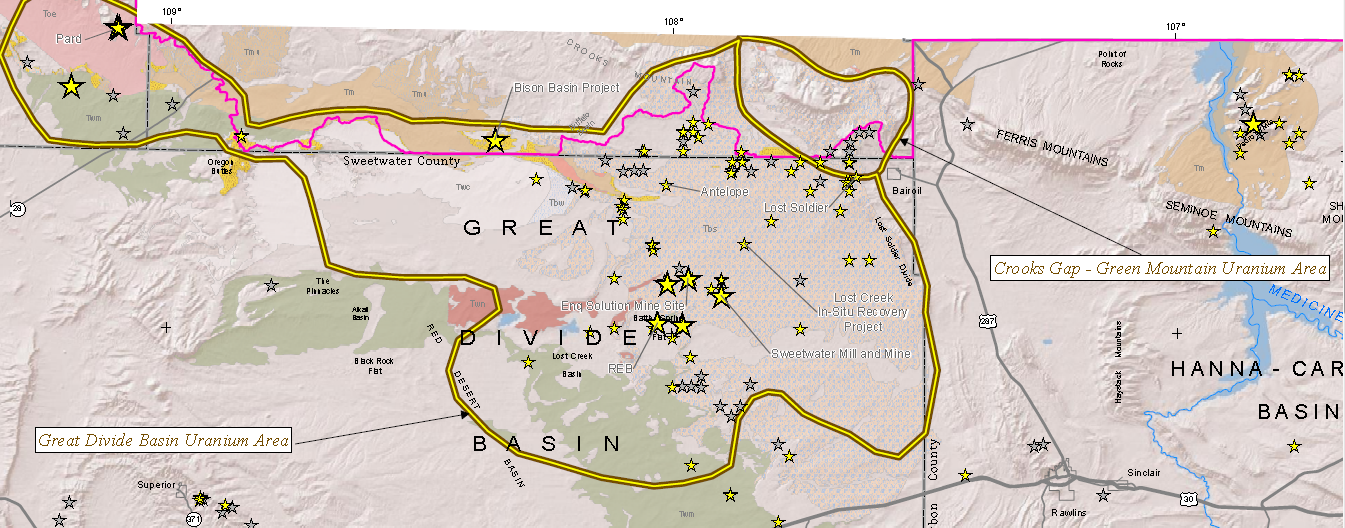 USGS Wyoming Crooks Gap Green Mountain uranium